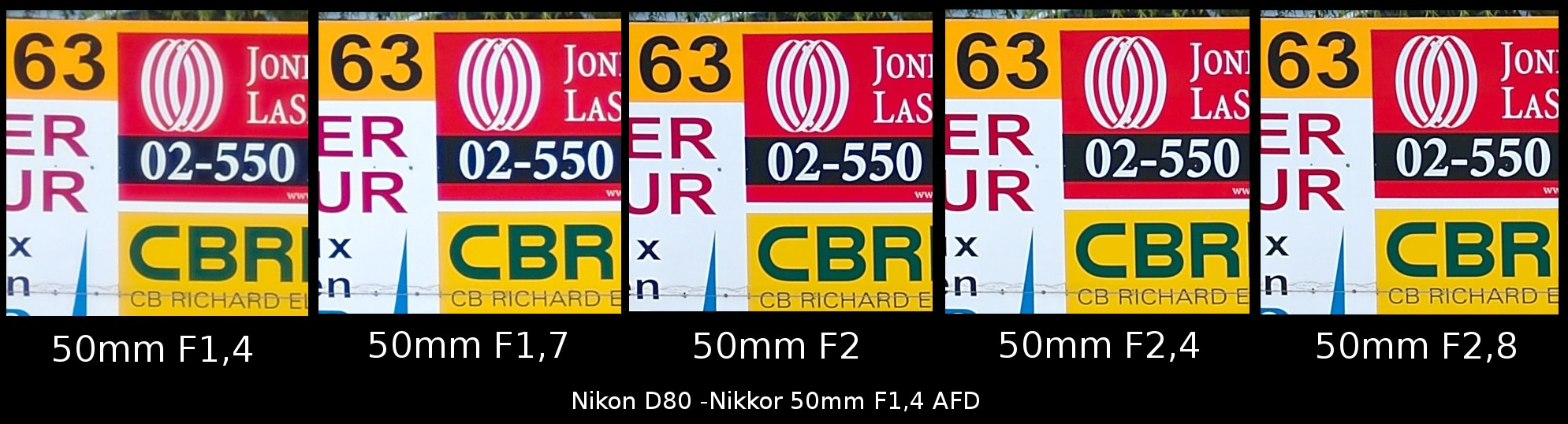 Chromatic aberration